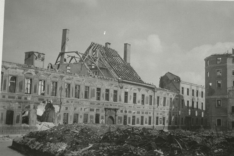 Description: The destroyed synagogue; Munich Creator/Photographer: Unknown Medium: Black and white photographic print Date: ca. 1945 Repository:Leo Baeck Institute Parent Collection: Leo Baerwald Collection Call Number: AR 3680 Rights Information: No known copyright restrictions; may be subject to third party rights. For more copyright information, click here. See more information about this image and others at CJH Archives and Library Catalog.